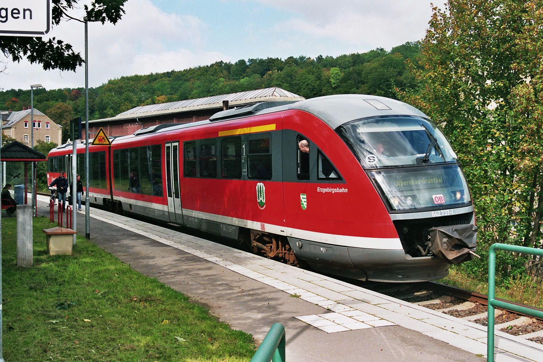 This image shows a multiple unit class 642 of the Erzgebirgsbahn (railway-line) Flöha - Olbernhau entering the station in Falkenau.